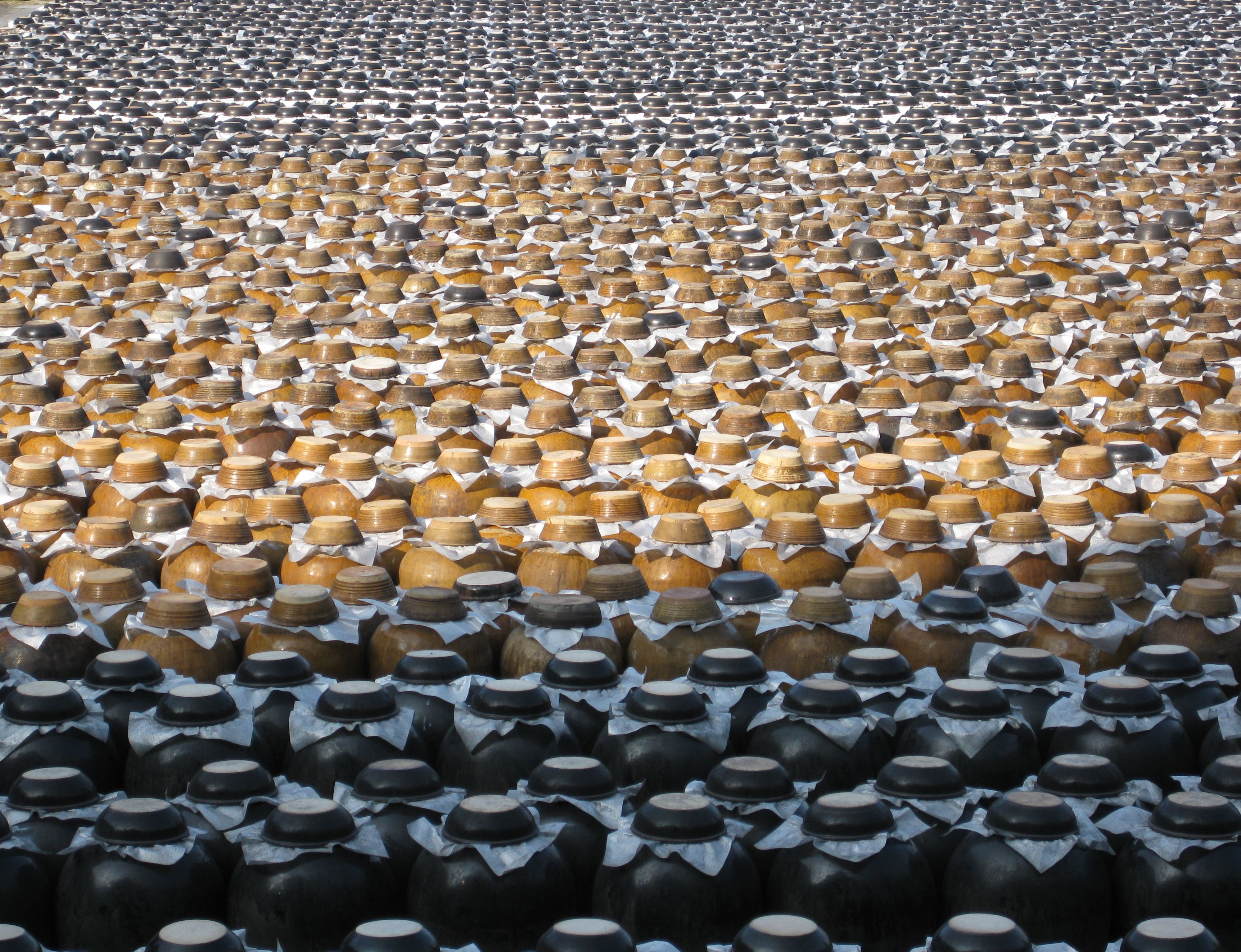 Producing black vinegar using ceramic pots at Fukuyama, Kagoshima